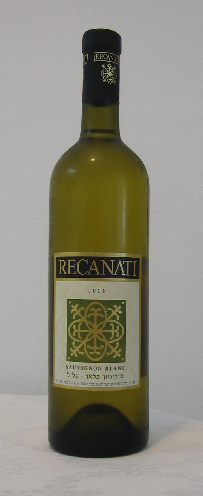 A photograph of a bottle of an Israeli sauvignon blanc wine.